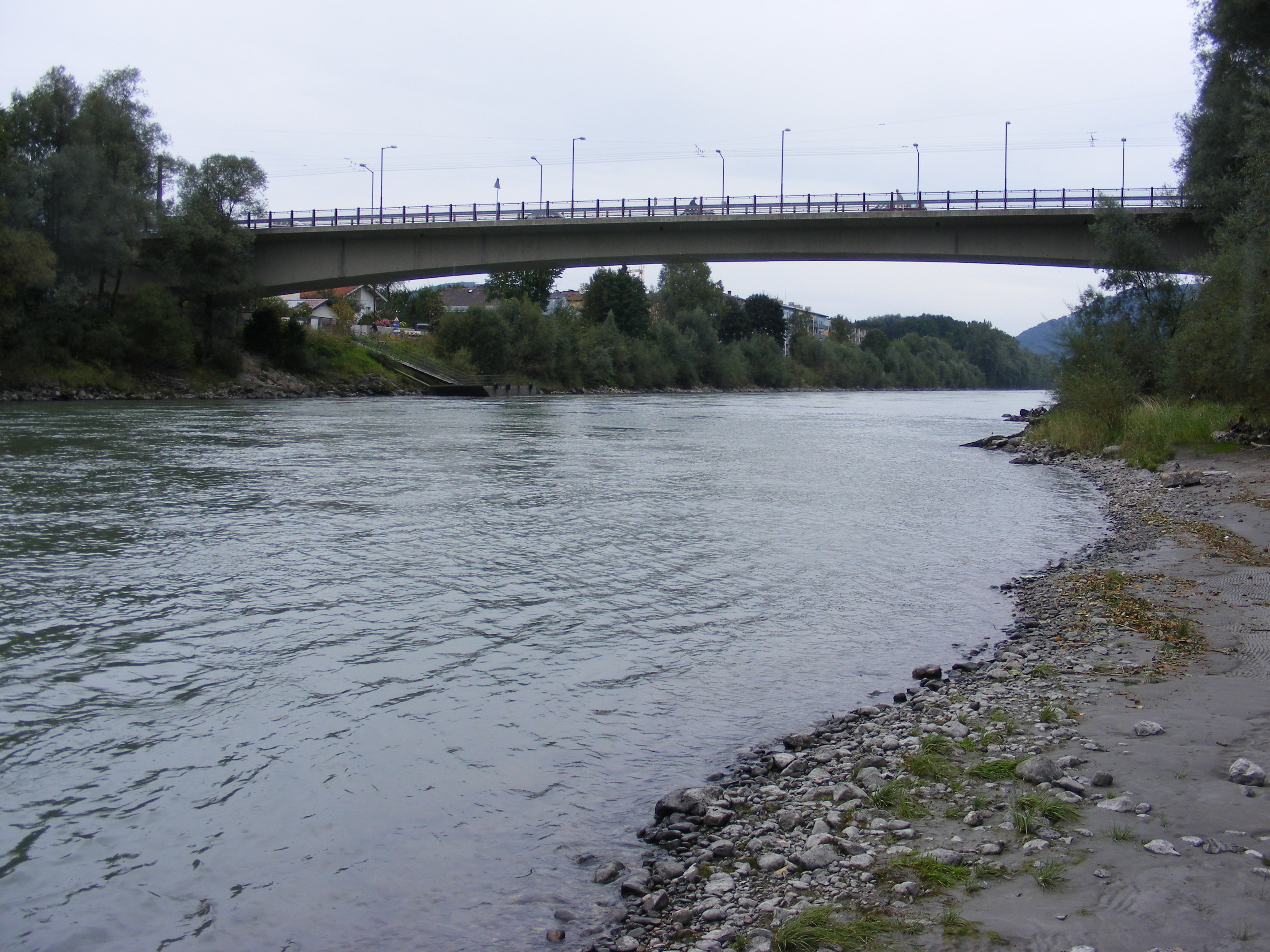 Hellbrunn Bridge, City of Salzburg